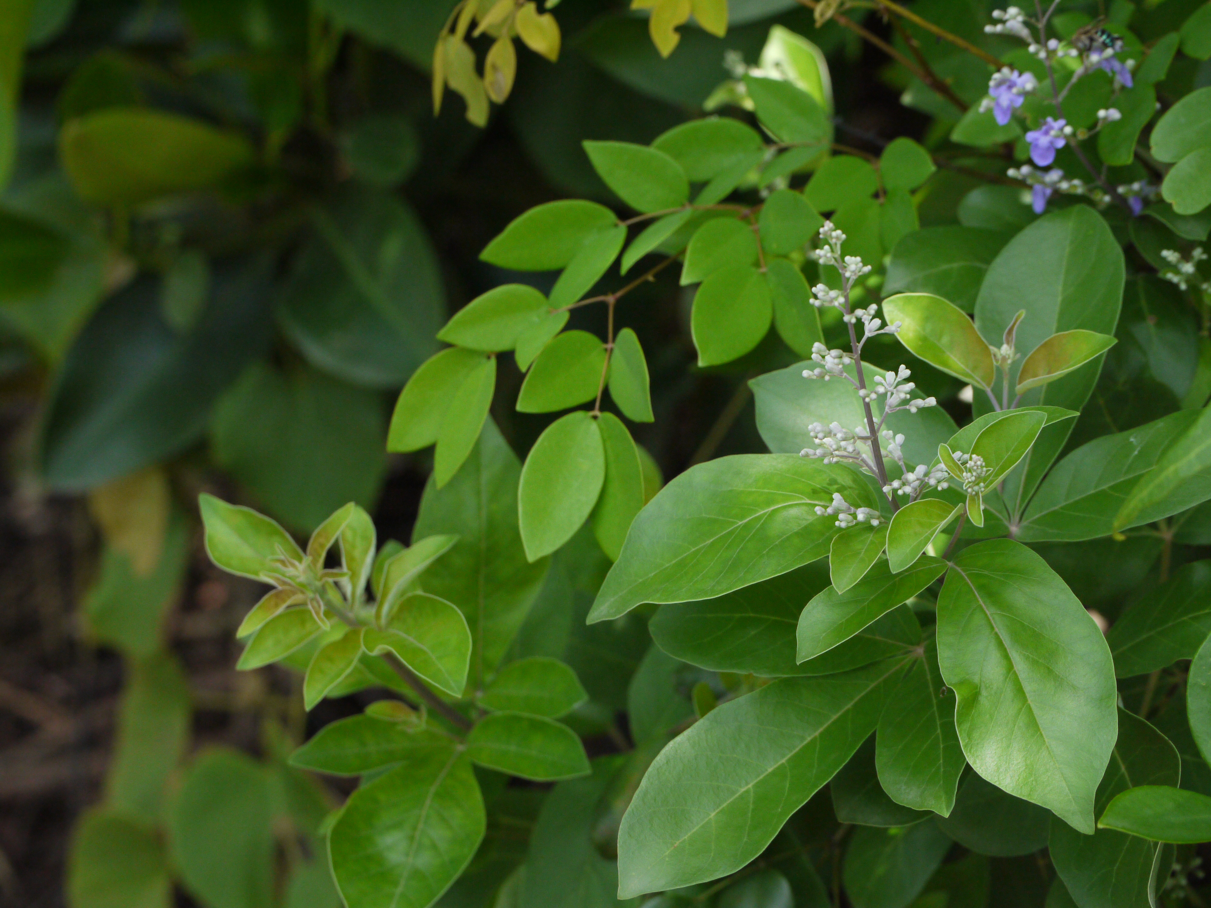 Lamiaceae (mint family) » Vitex trifolia L. VY-teks -- Latin name for the Grape genus try-FOH-lee-a -- three leaves, or each leaf divided into three parts commonly known as: Indian privet, Indian wild pepper, simple-leaf chaste tree, three-leaved chaste tree • Gujarati: નગોડ nagod • Hindi: सम्भालू sambhalu • Kannada: ನಿರ್ಗುಣ್ಡಿ nirugundi, ನೀರುಲಕ್ಕಿ nirulakki • Malayalam: കരിനൊച്ചി karinocchi • Manipuri: urikshibi • Marathi: निगूड niguda, निर्गुंडी nirgundi • Oriya: svetasurasa • Punjabi: ਰਿੰਗਾ ringga • Sanskrit: अनन्ता ananta, सिन्दुवार sinduvara • Tamil: கருநொச்சி karu-nocci, நீலி nili, நீர்நொச்சி nir-nocci, நொச்சி nocci • Telugu: నీలవావిలి nilavavili, నీరవావిలి niravavili • Tibetan: si ndu ba ra Native to: temperate & s-e Asia, India, n Australia, s Pacific; naturalized / cultivated elsewhere References: Flowers of India • NPGS / GRIN • ENVIS - FRLHT • DDSA